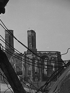 Fotothek df roe-neg 0006417 017 Blick auf die zerstörte Sophienkirche Ausschnitt